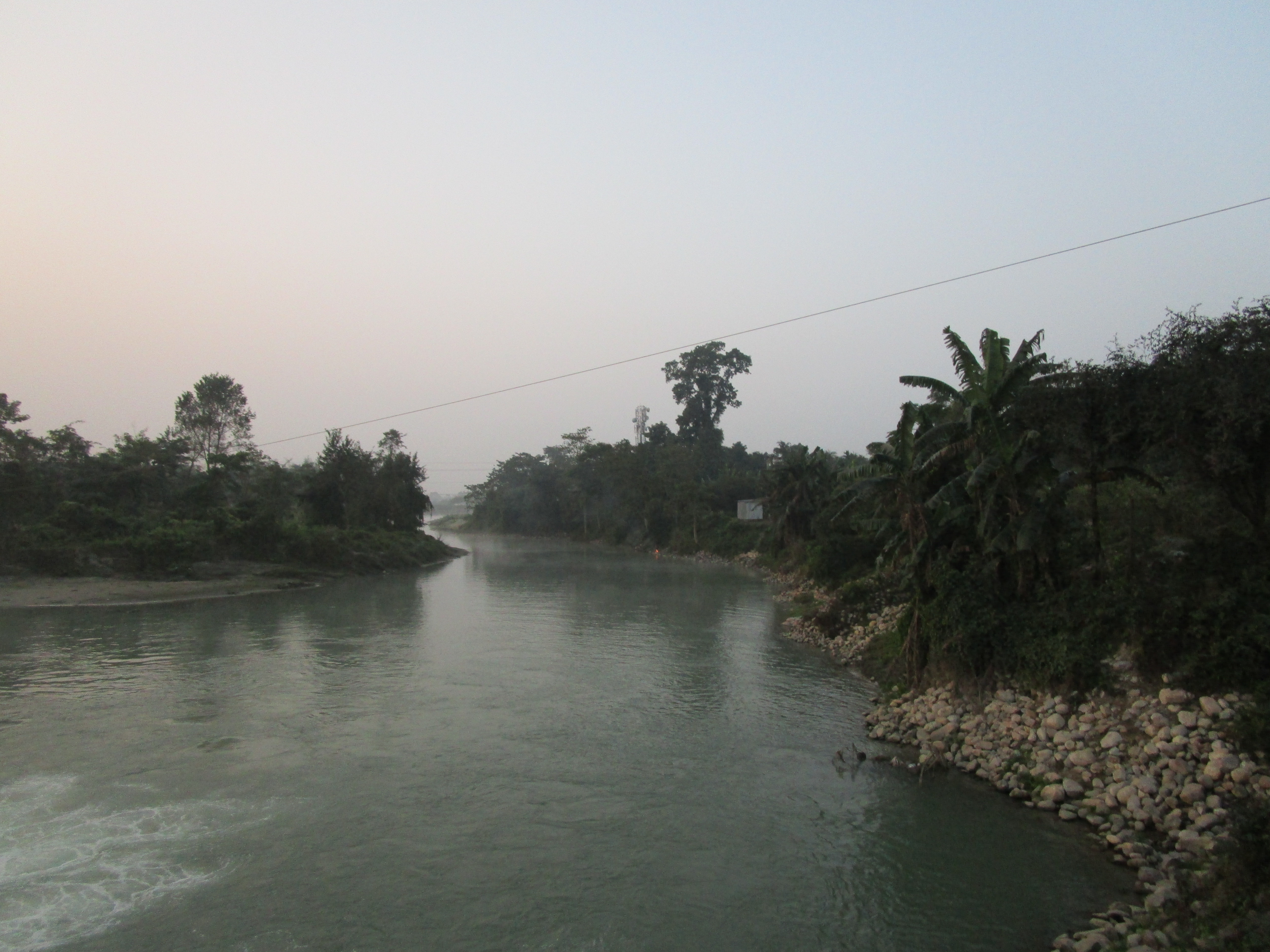 Raidak River at Chhipra, West Bengal, India. Image taken from NH31C.